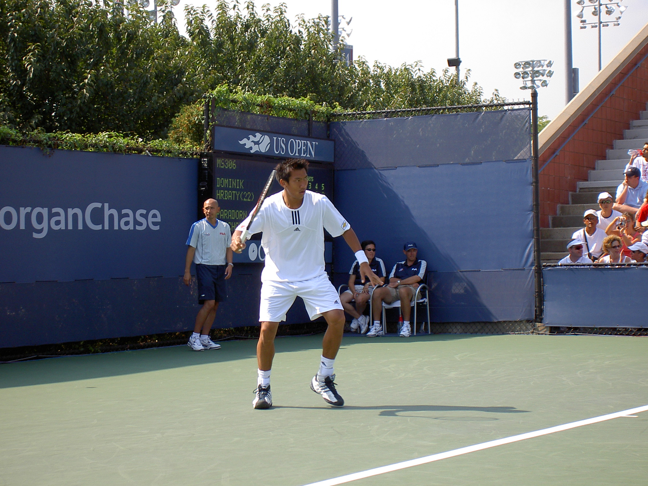 Paradorn Srichaphan, Thai tennis player, at the US Open 2004.